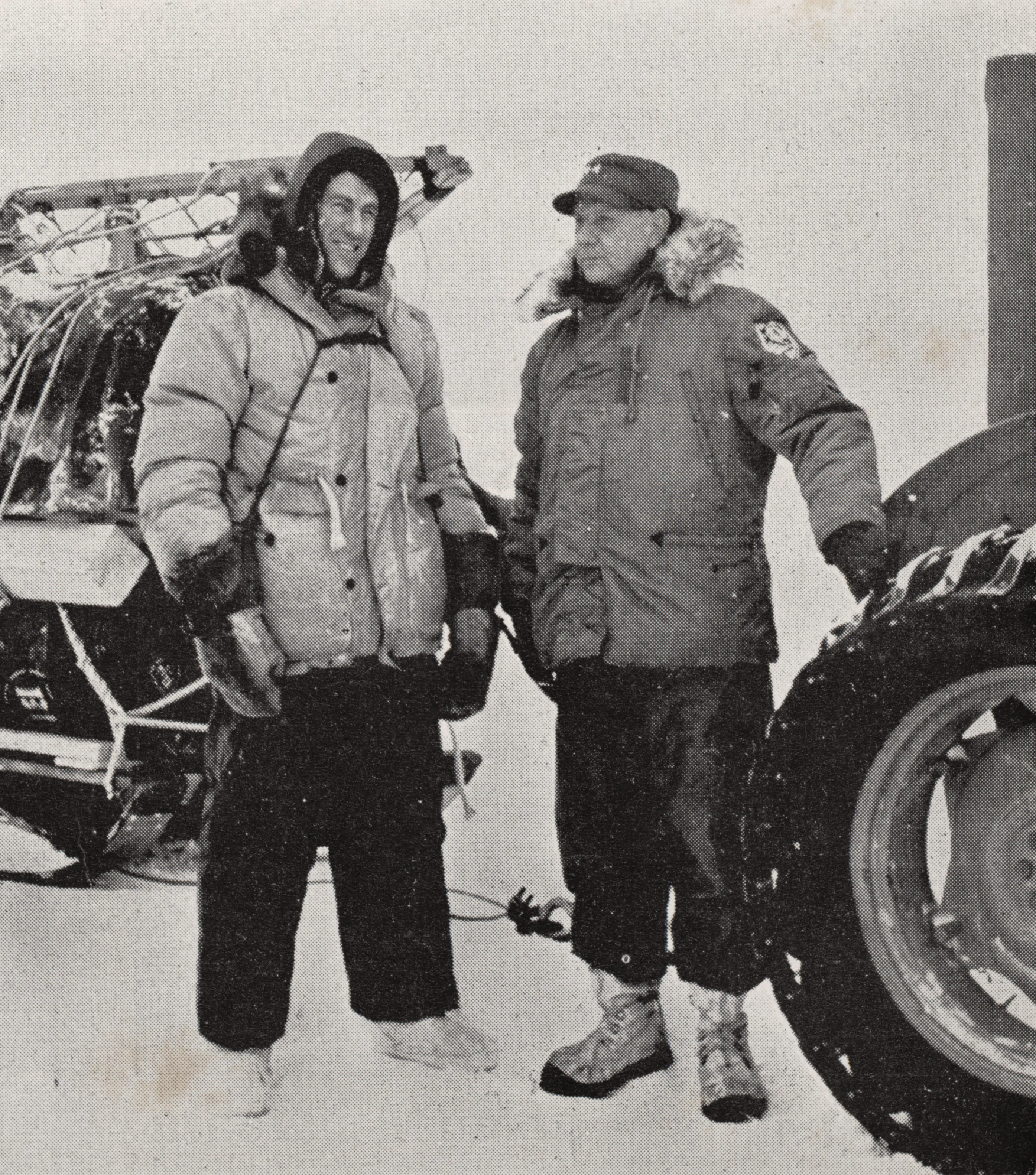 Rear-Admiral George J. Dufek (right) with Sir Edmund Hillary just before departure. From a collection of photographs depicting the departure from Scott Base of the New Zealand tractor train of the Commonwealth Trans-Antarctic Expedition on its depot-laying journey toward the South Pole, published in: "South Polar journey begins". The Weekly News (Auckland, New Zealand: Wilson and Horton): p. 23. 23 October 1957. OCLC 29121953. Photograph taken 1957 by an unidentified staff photographer for The Weekly News and The New Zealand Herald. Original page physical description: Photolithographs on page, 435 x 310 mm. This version has been cropped, and has had brightness/contrast adjustments.